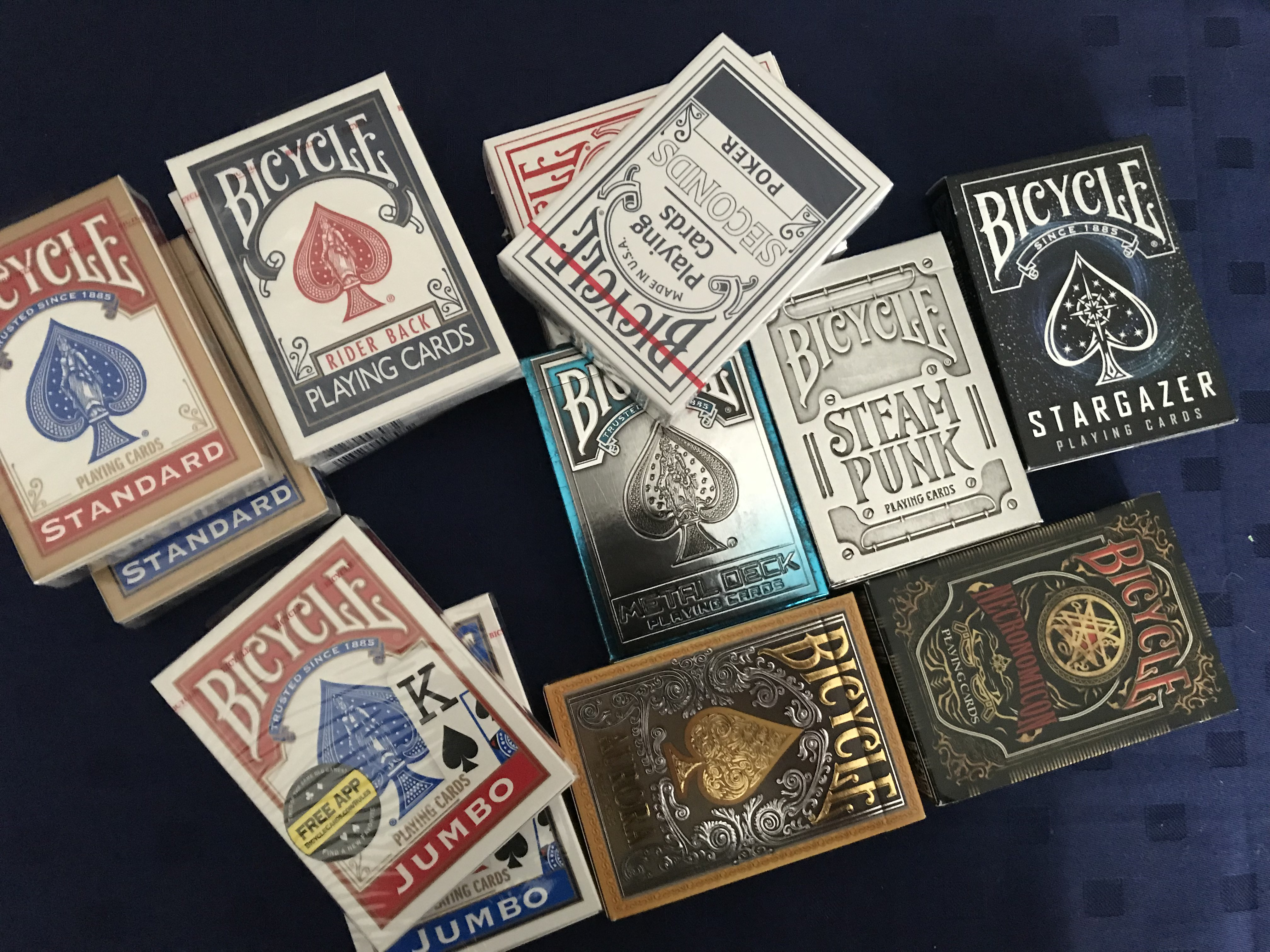 Sample of Bicycle playing cards decks